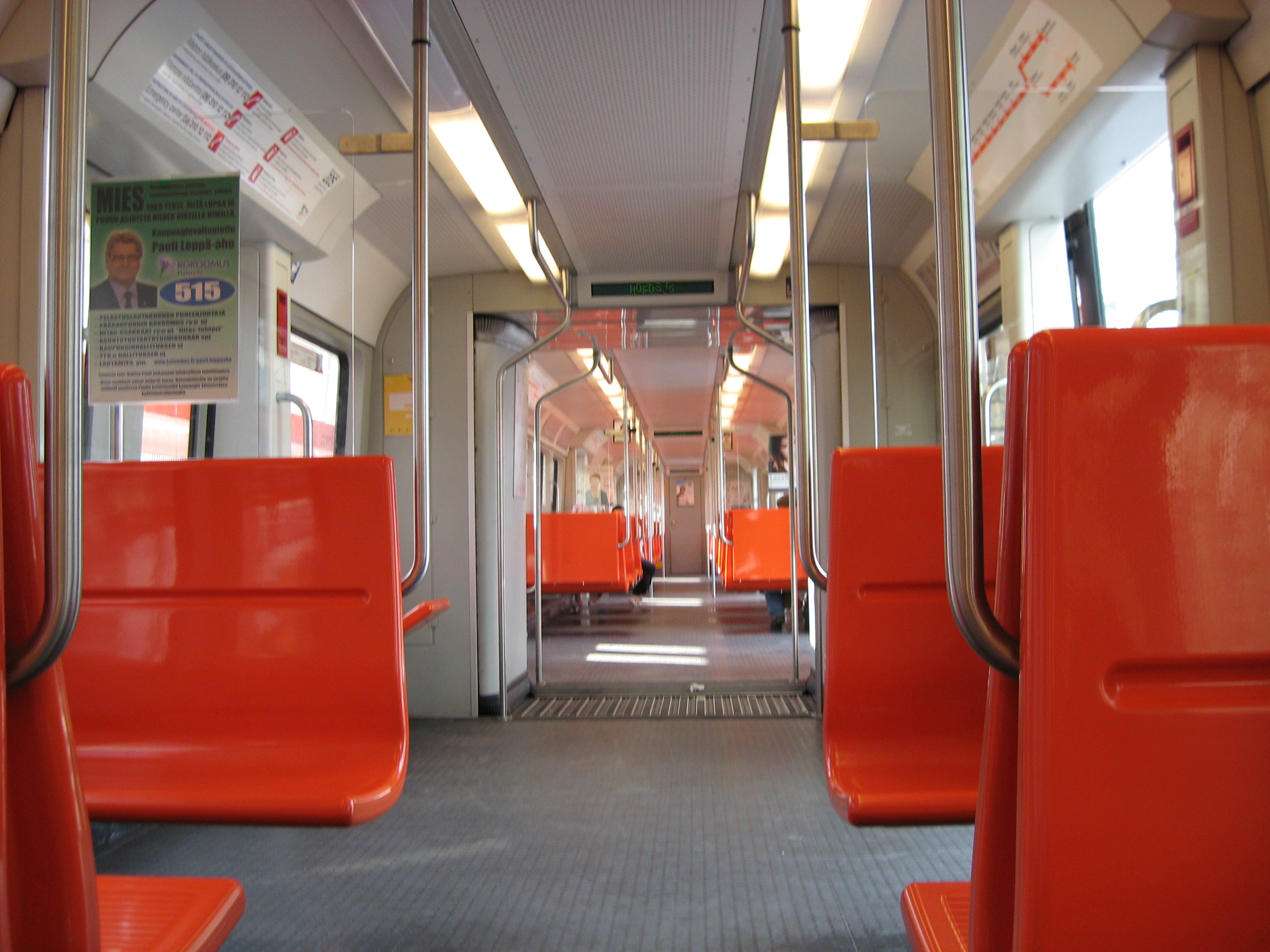 Inside M200-serie metro train